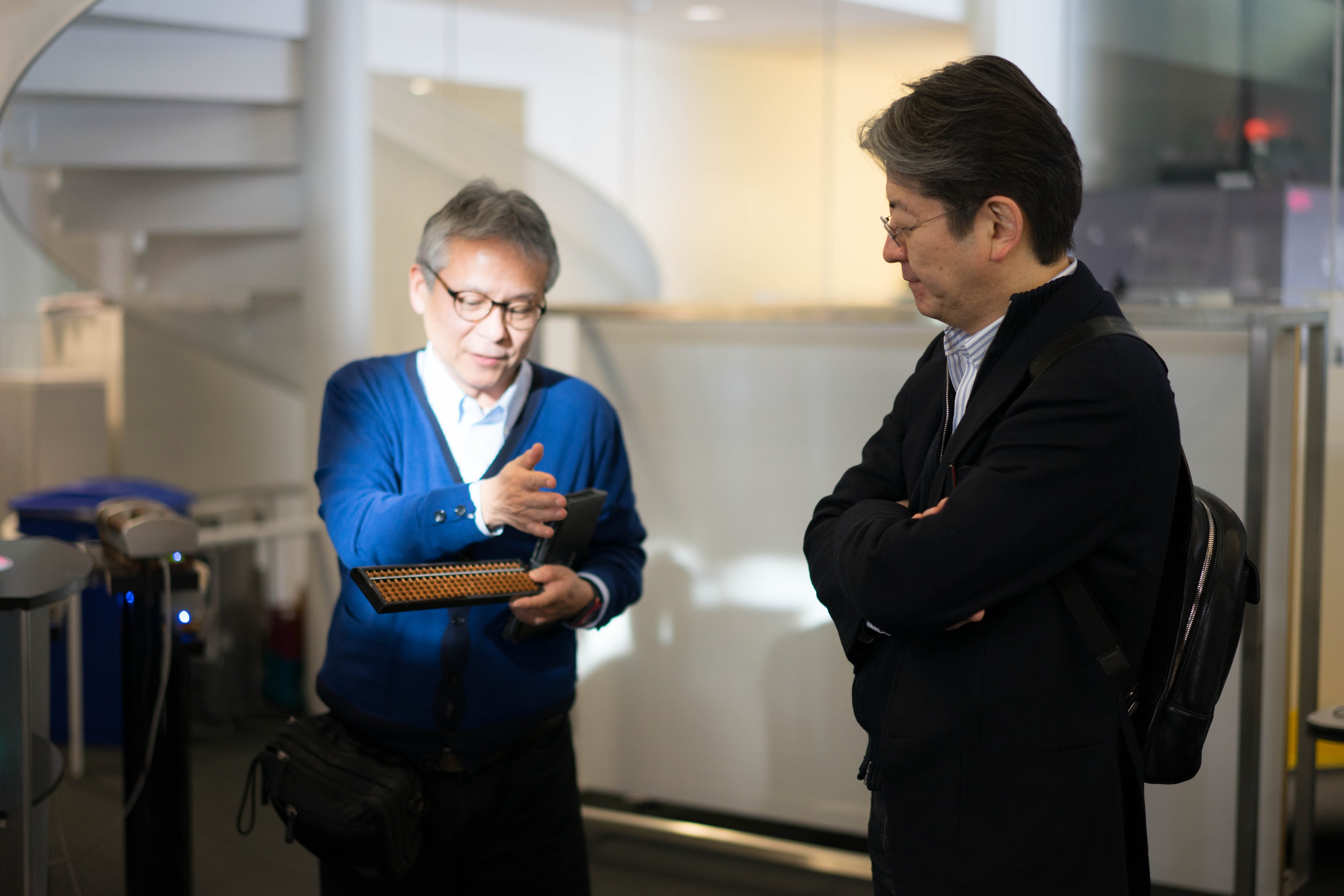 From the Freesouls collection by Joi Ito